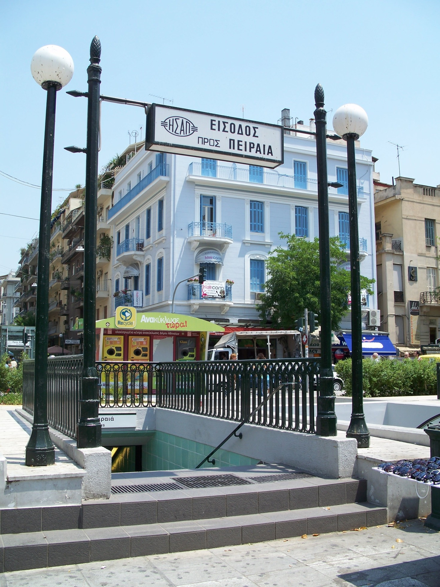 Entrance of Victoria Station of the Athens metro system. The station is located at the square by the same name.